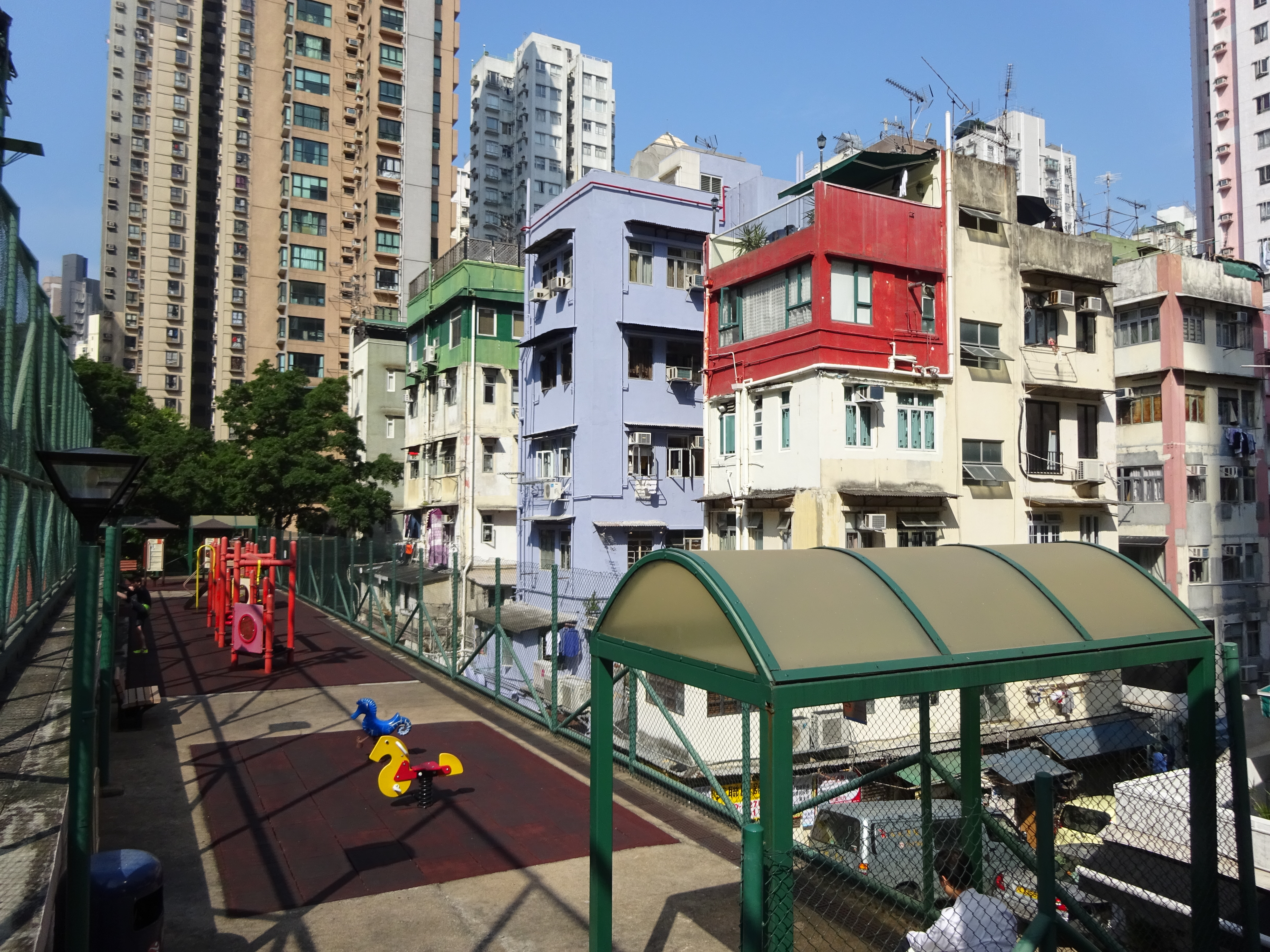 View Villa 順景雅庭, & Blake Garden, Tai Ping Shan Street, Sheung Wan, Hong Kong